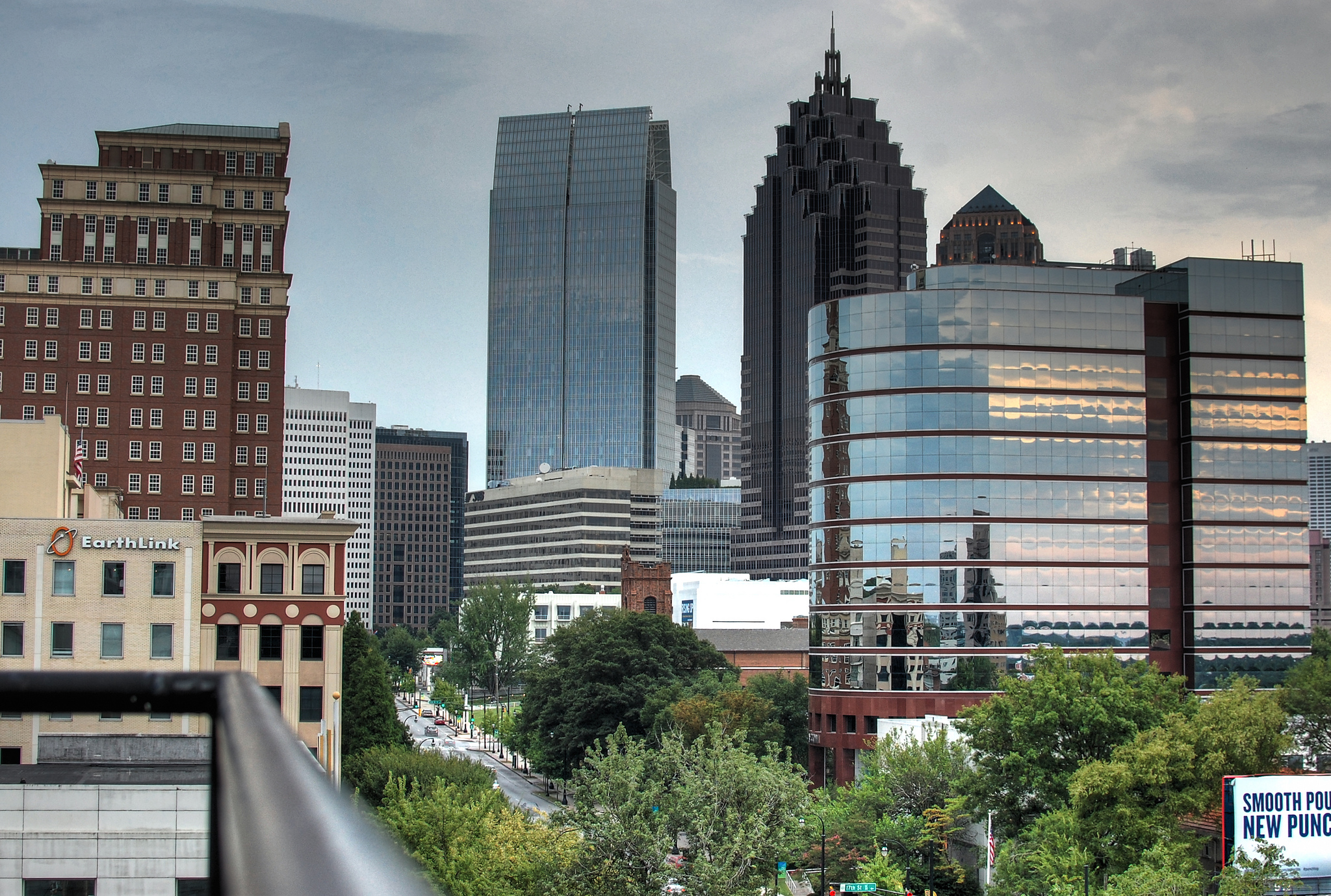 Peachtree Street in Midtown Atlanta